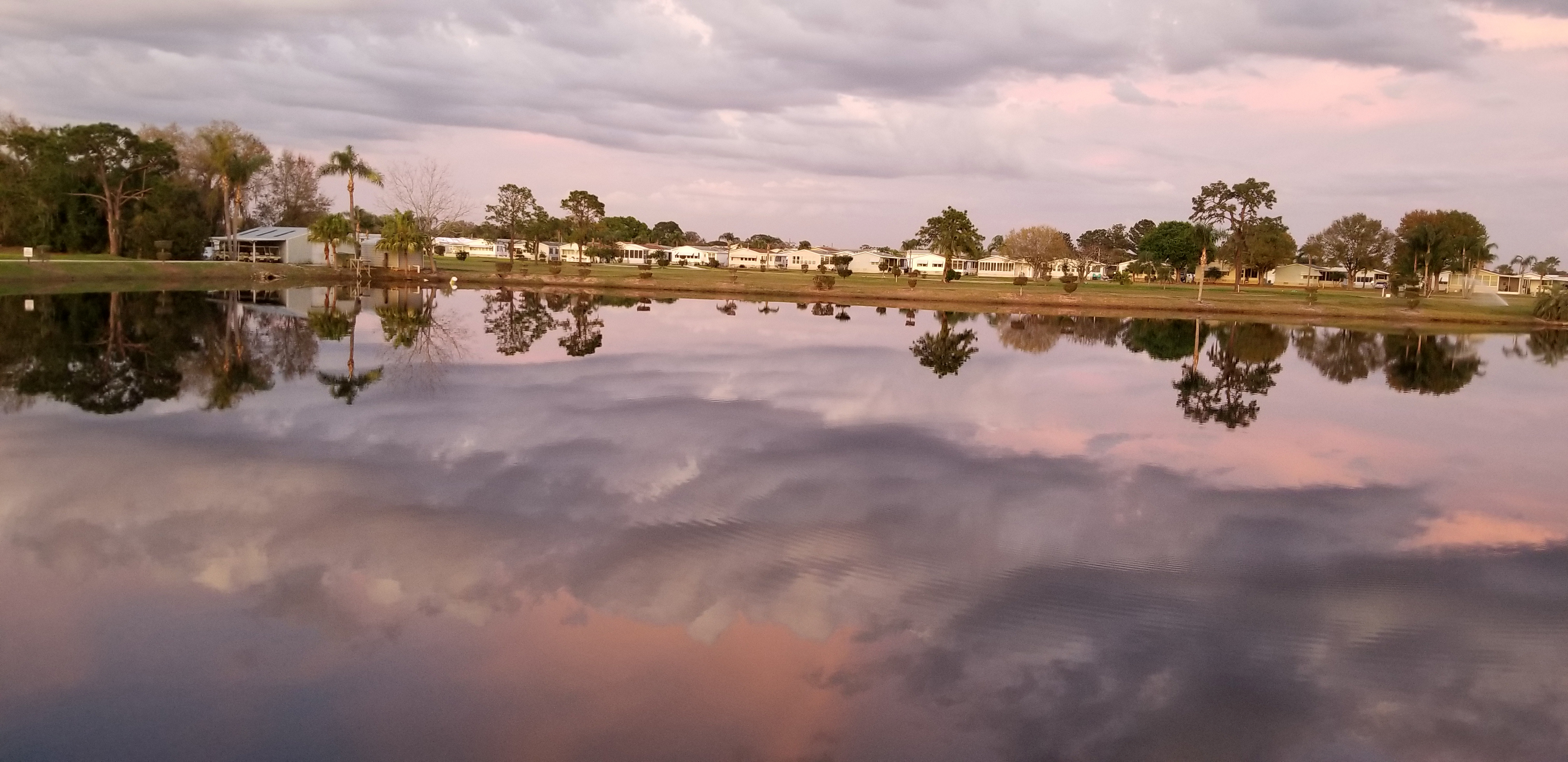 The largest lake at Lily Lake Frostproof Florida